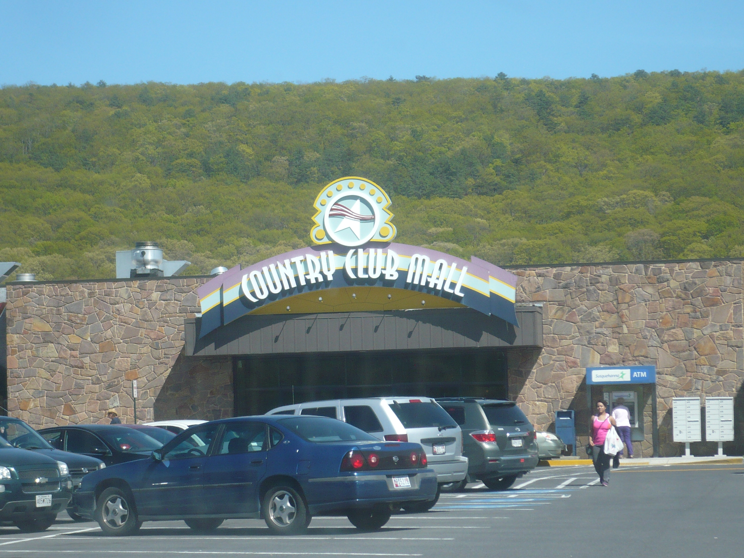 The photo is of the Country Club Mall entrance in Lavale, Maryland, during the day.